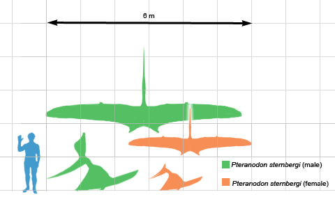 Scale diagram for Geosternbergia sternbergi. Male (green) based on holotype specimen FHSM VP 339. Female (orange) based on specimen NMC 41-358.